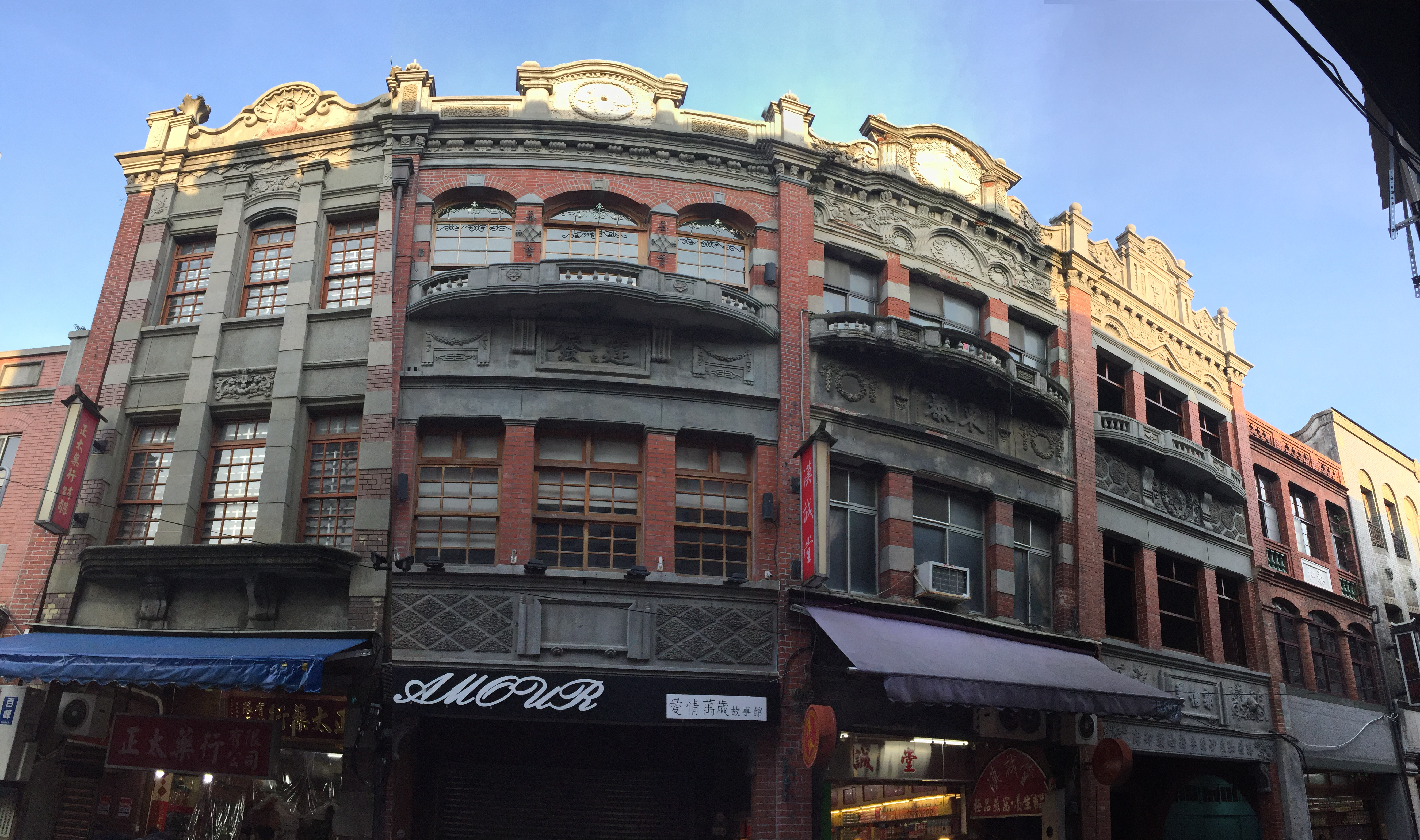 Dihua street